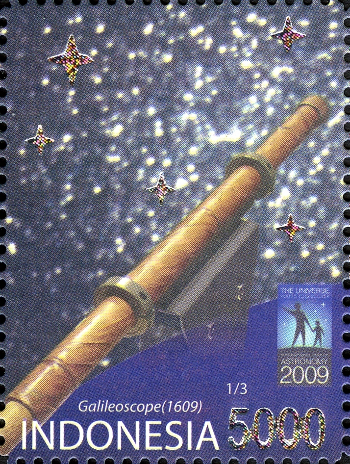 Stamps of Indonesia